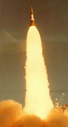 A HIBEX Missile is launched during testing at White Sands Missile Range.